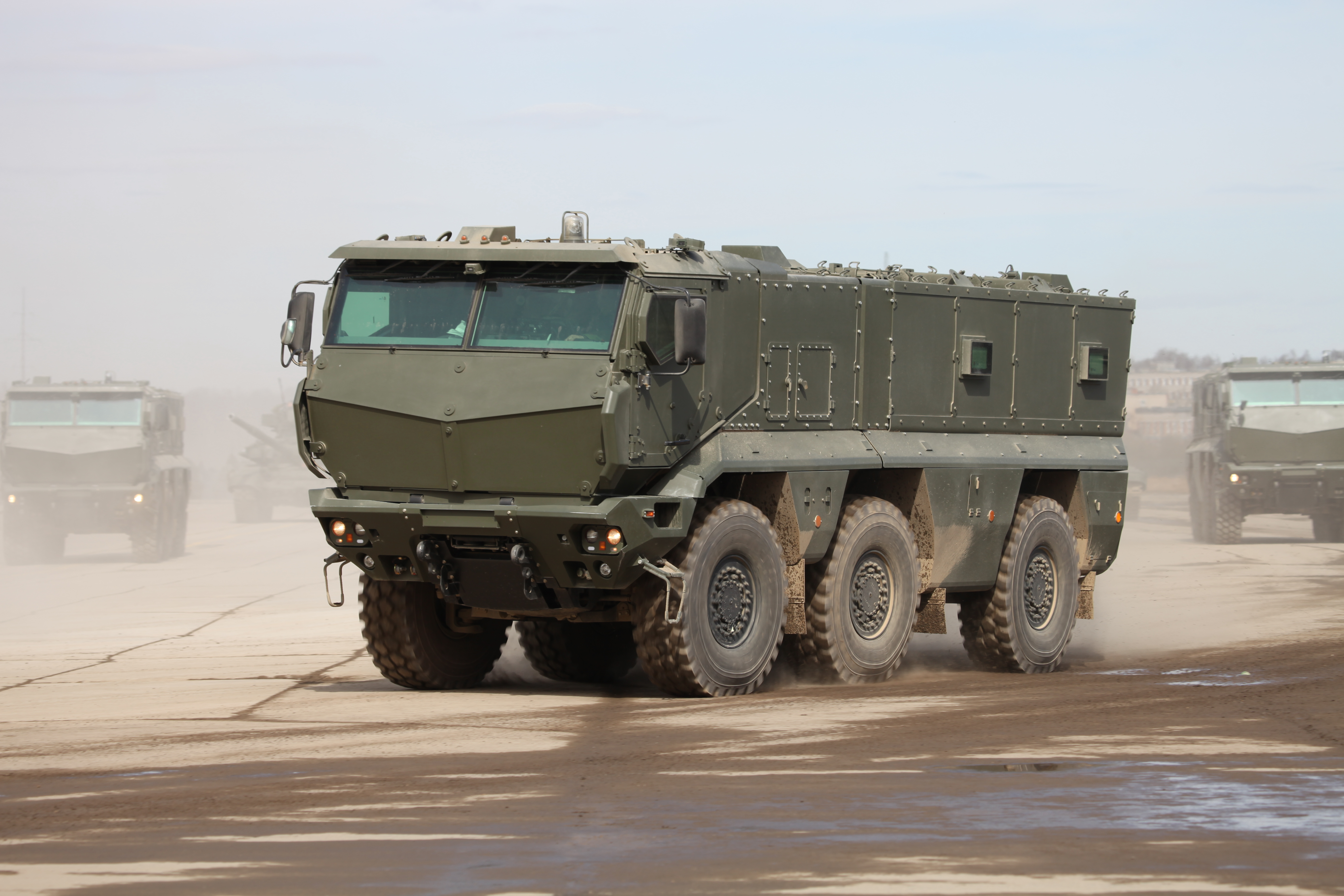 Modular armored MRAP vehicle KAMAZ-63968 Typhoon-K